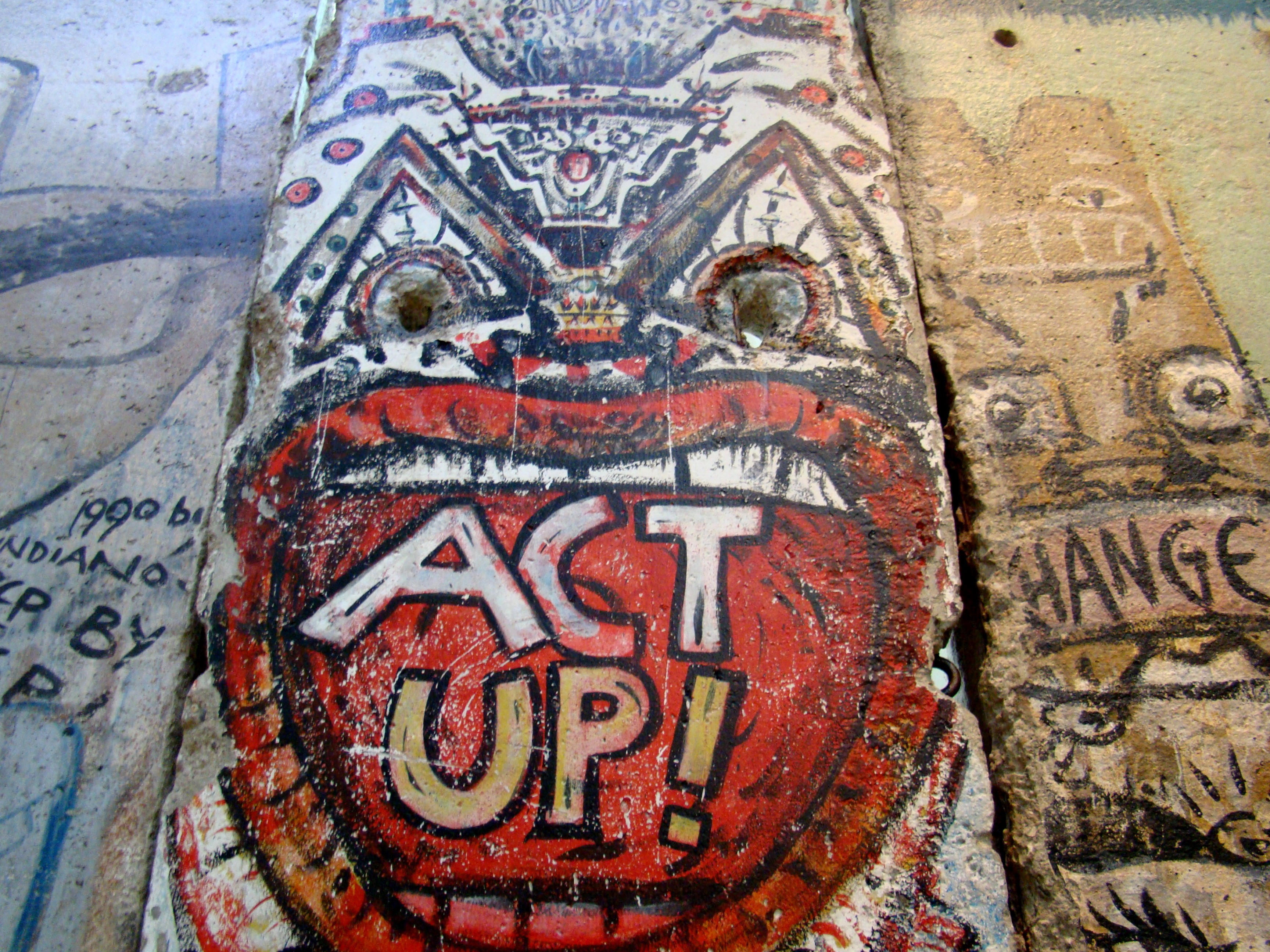 A section of the Berlin Wall with Graffiti regarding Act Up. Taken at the Newseum in DC.